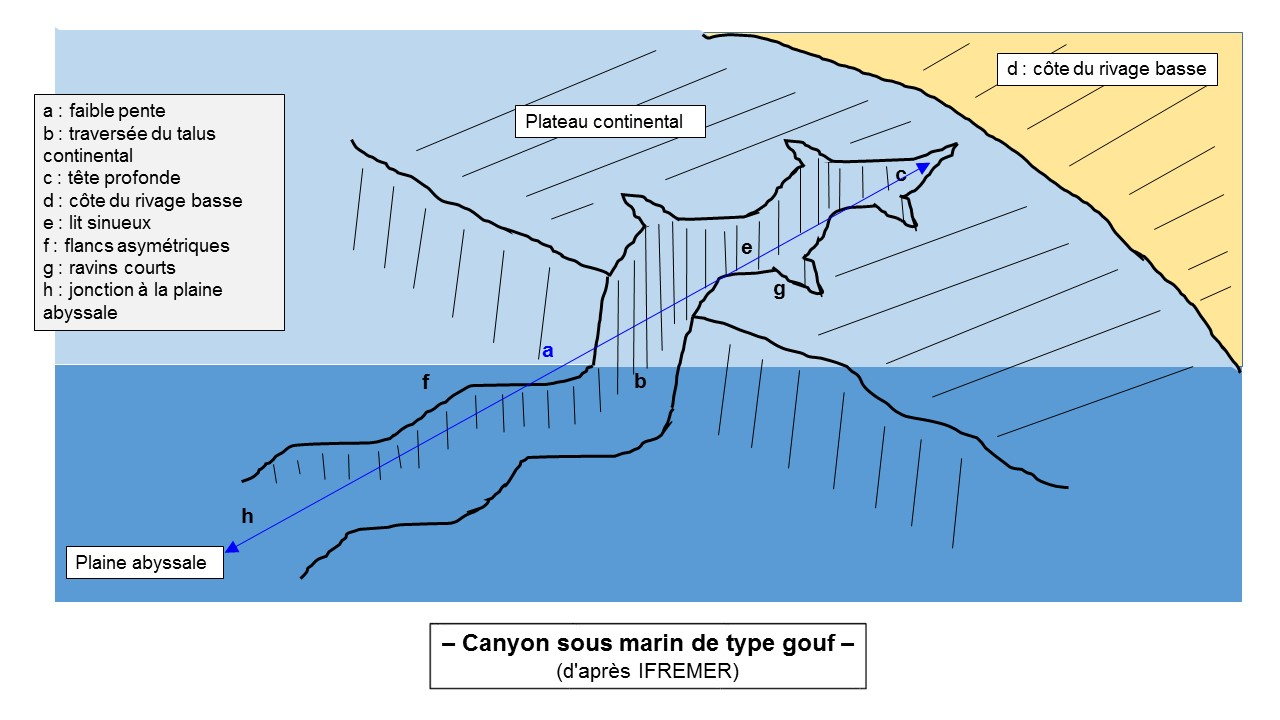 Schema of a submarine canyon gouf type.